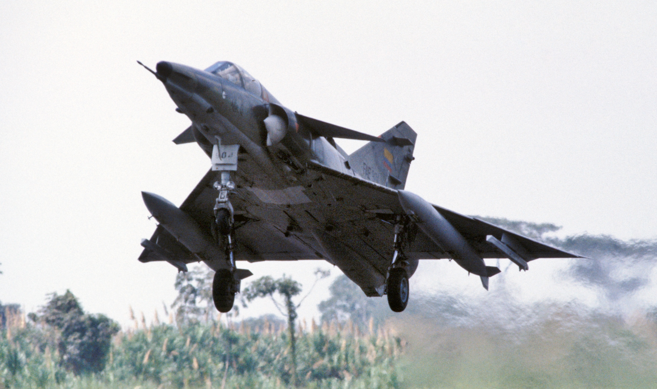 Released to Public ID: DF-ST-87-12683 Operation / Series: BLUE HORIZON An Ecuadoran air force Kfir aircraft takes off during the joint US/Ecuadoran Exercise BLUE HORIZON'86.